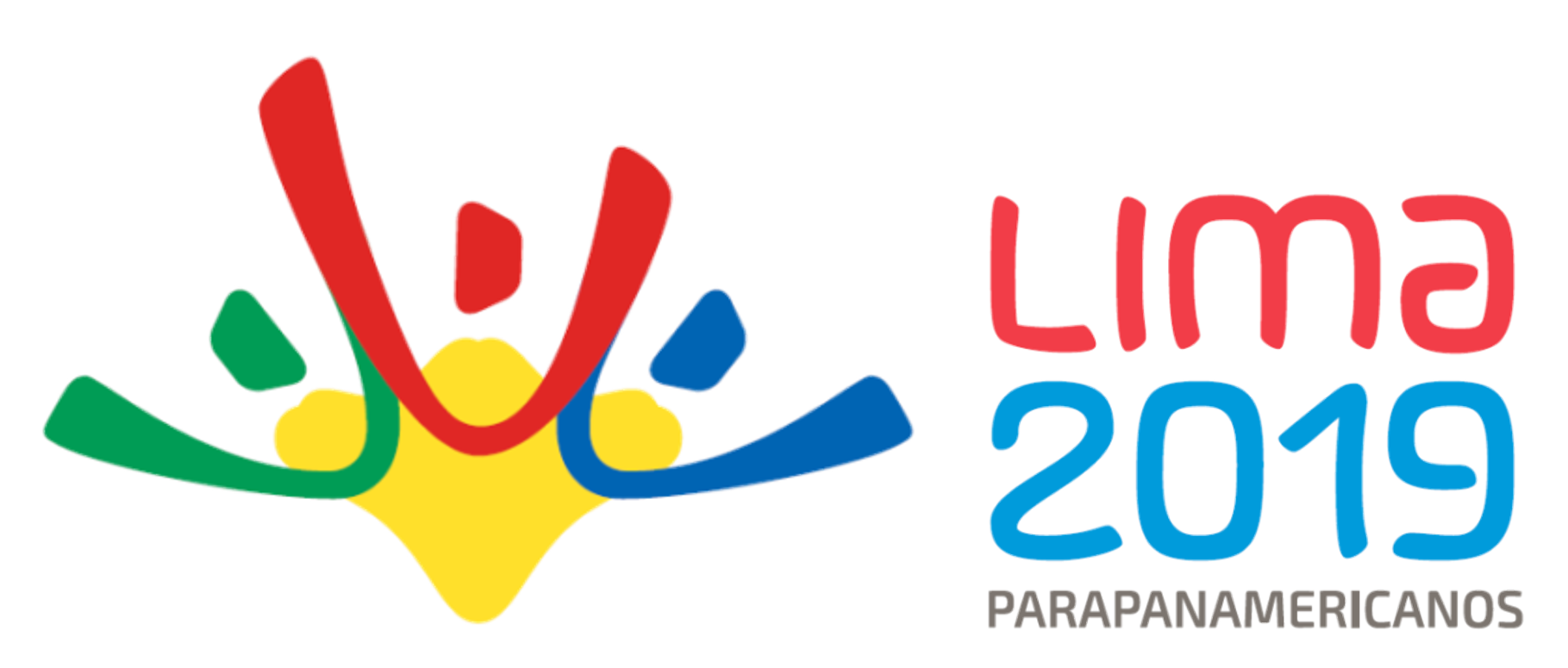 The logo of the 2019 Parapan Am Games Lima consists of three waves, a symbol that internationally identifies the Paralympic movement and the flower of Amancaes, a symbol of life and the city of Lima. It flourishes between July and August, months where multi-sport events take place.